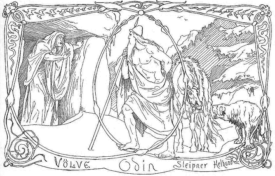 Odin and his horse Sleipnir meet with an unnamed völva in Hel as described in Baldrs draumar. Sleipnir and the Helhound Garm stare at one another.